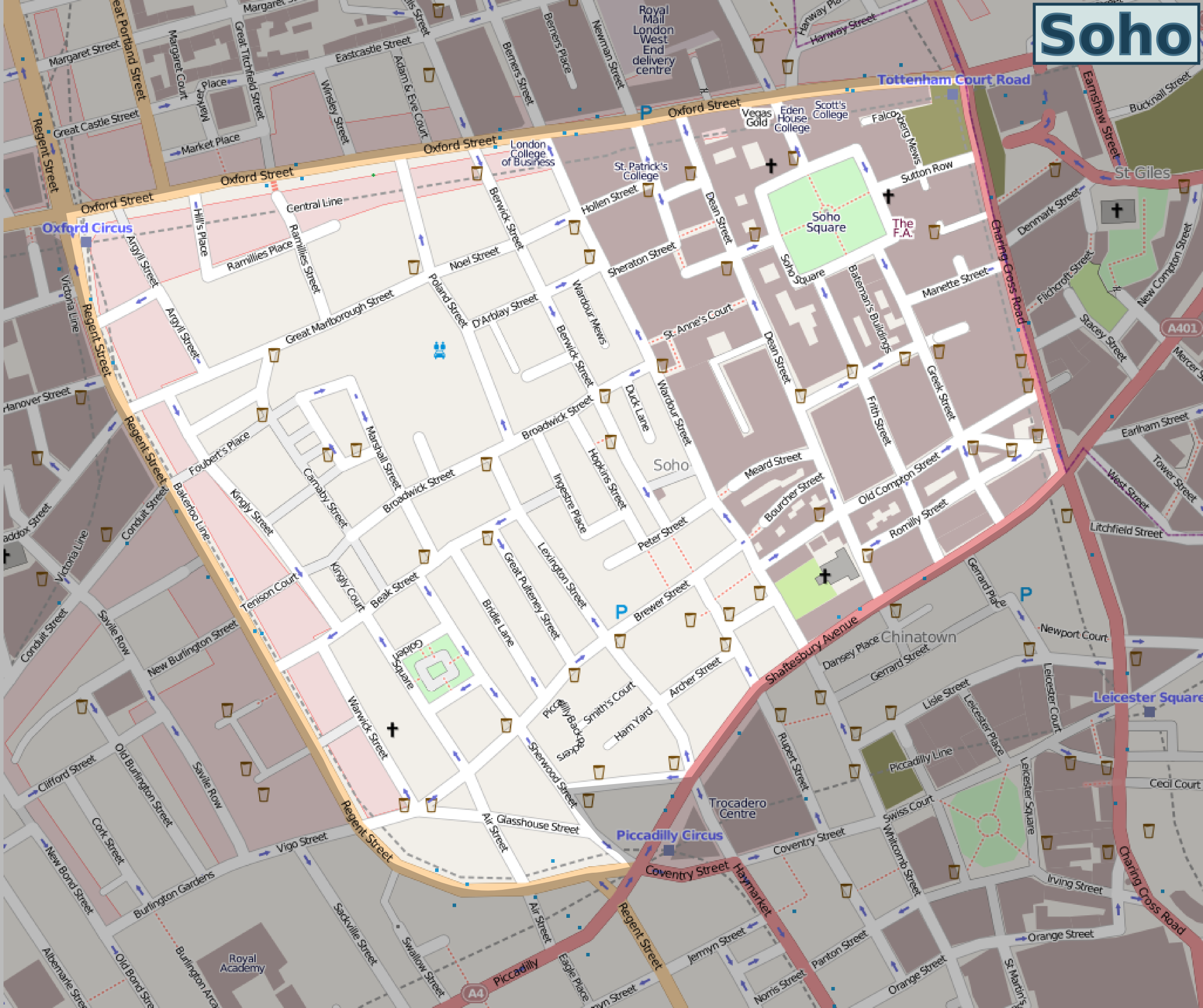 Soho district map, London.